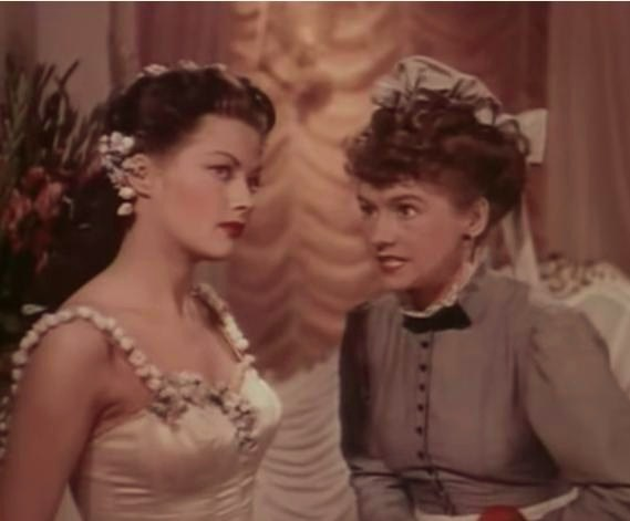 Yvonne De Carlo (left) & Sylvia Field in Salome, Where She Danced - cropped screenshot